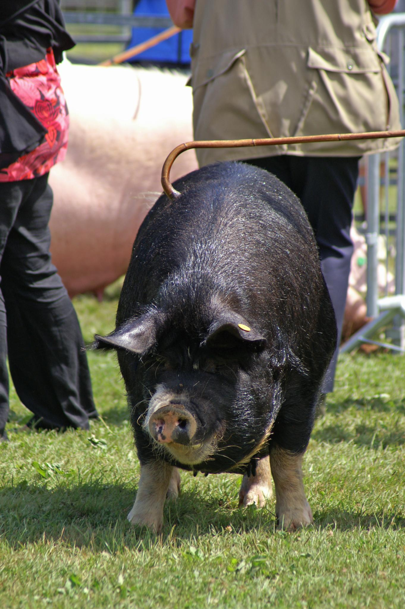 A Berkshire sow at the Last Royal Show.